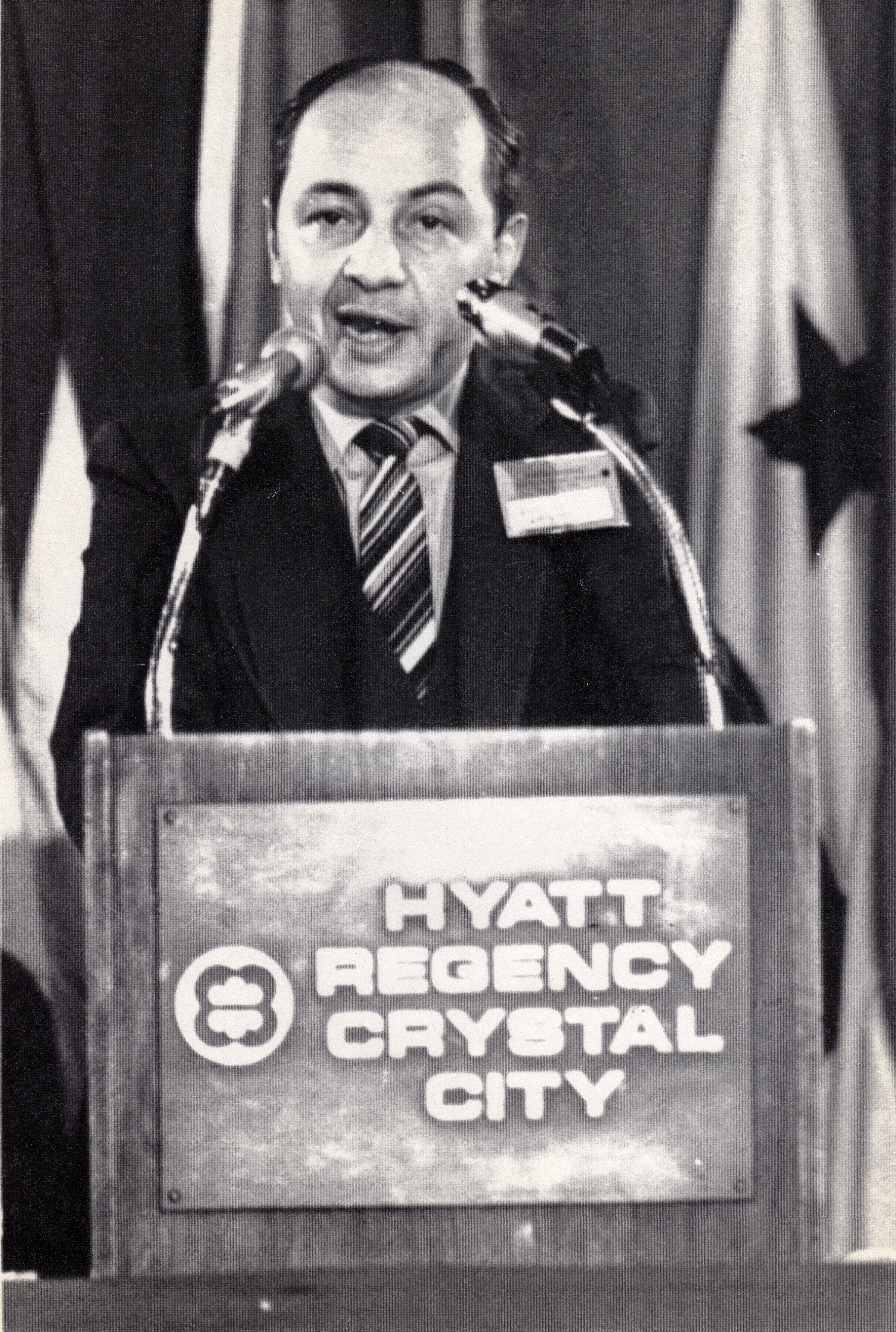 Alejandro Iaccarino in Washington